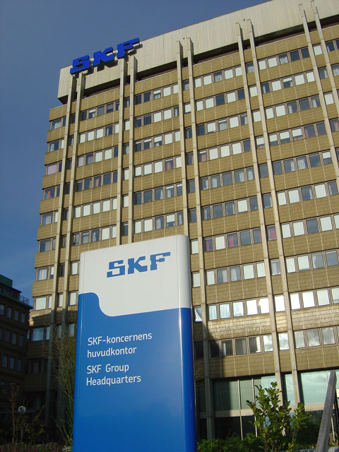 The headquaters of the SKF Group, "HK3", Gamlestaden, Göteborg, Sweden